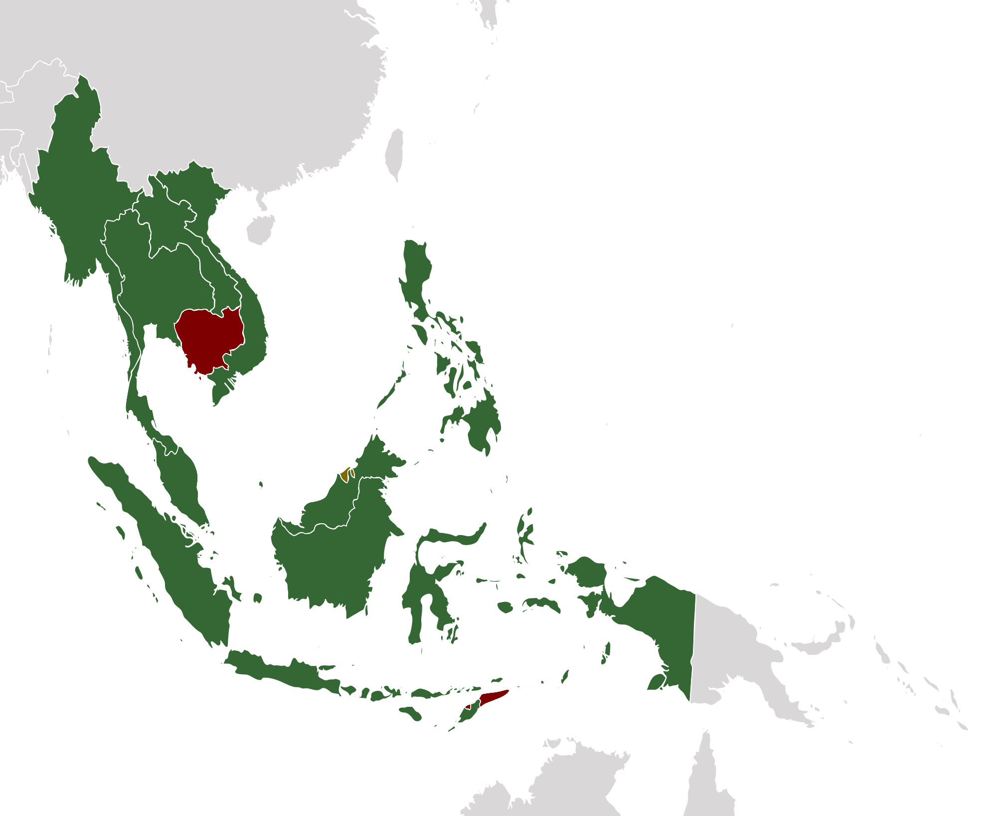 Legend: Qualify Did Not Qualify Banned